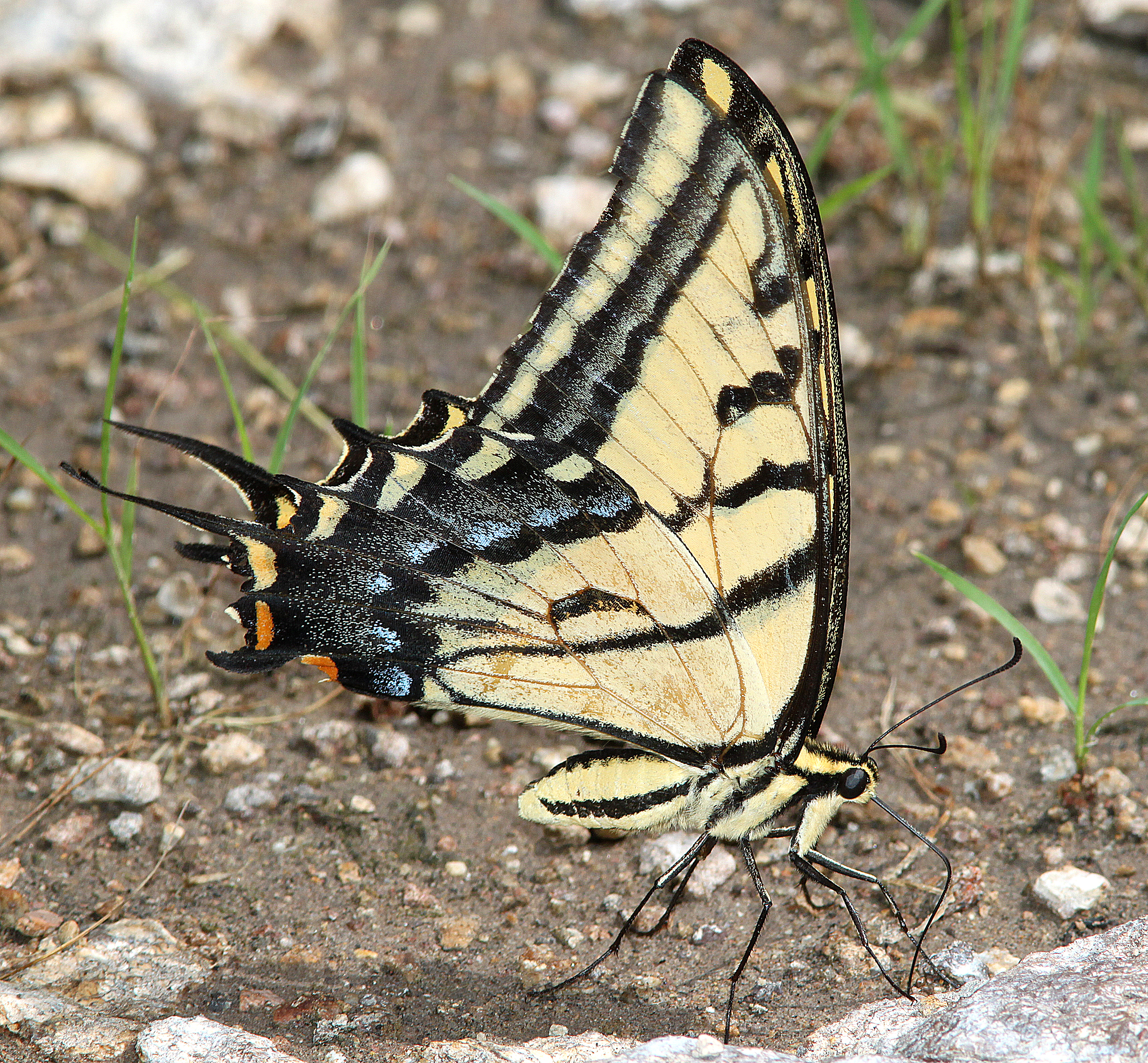 Butterflies of North America